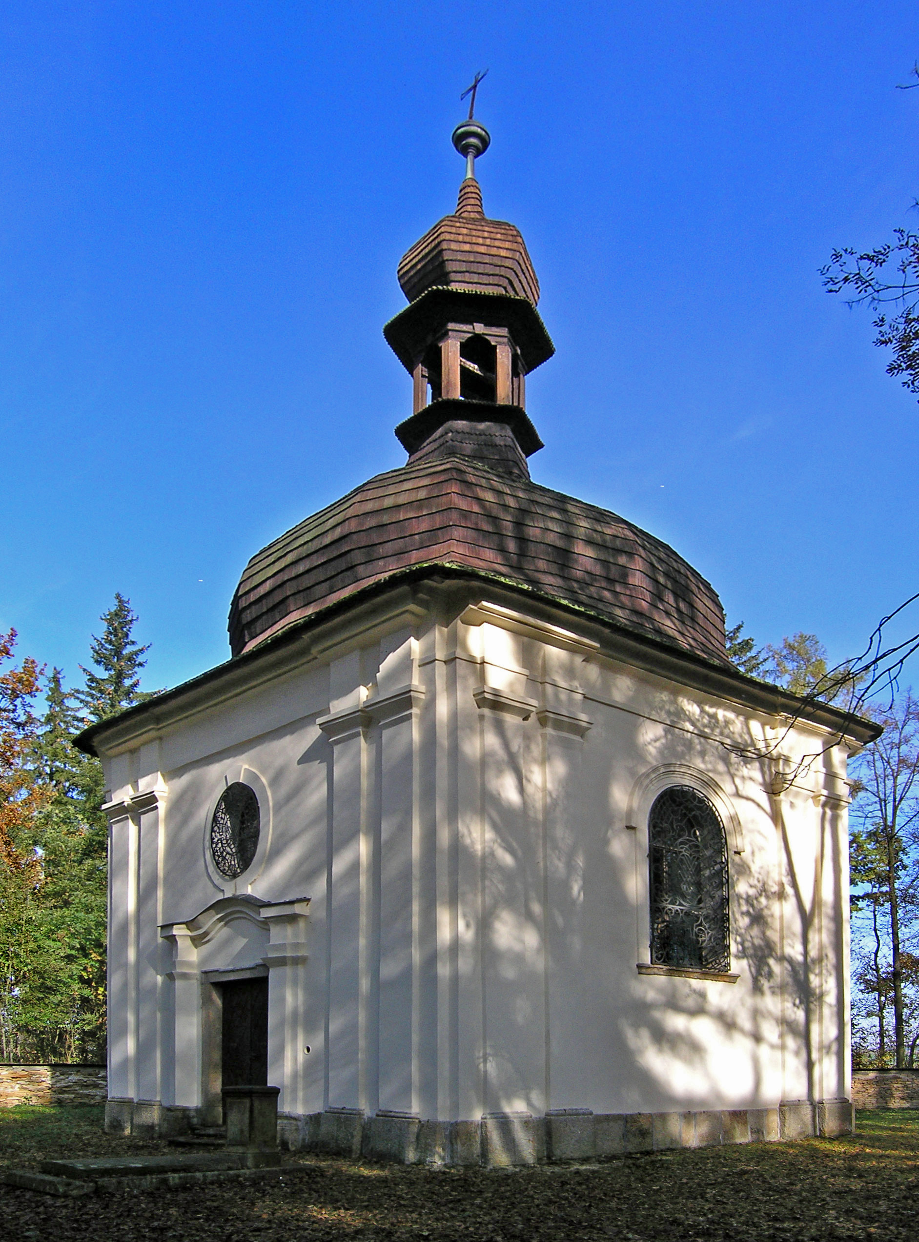 Chapel by Plandry village, Czech Republic